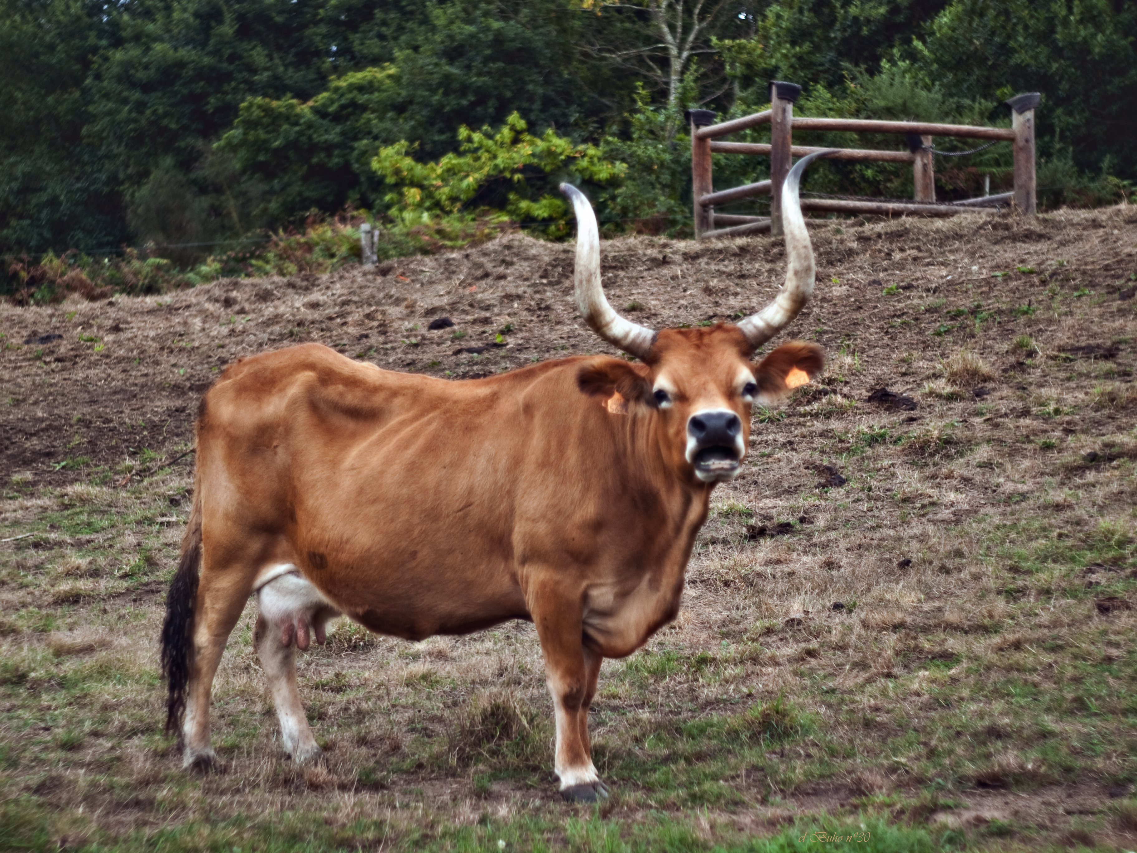 ♪ bad company ♪ - Bad Company galipedia, cachena wikipedia, cachena english wikipedia, cachena cattle